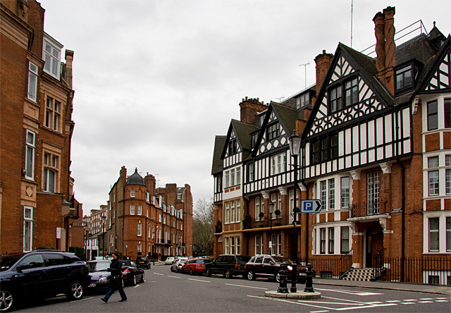 Herbert Crescent The buildings on the right form part of Herbert Crescent, which diverges to the right from Pavilion Road at the block of buildings in the centre-left of the photo - Pavilion Road continues straight on. This view is from Hans Crescent.